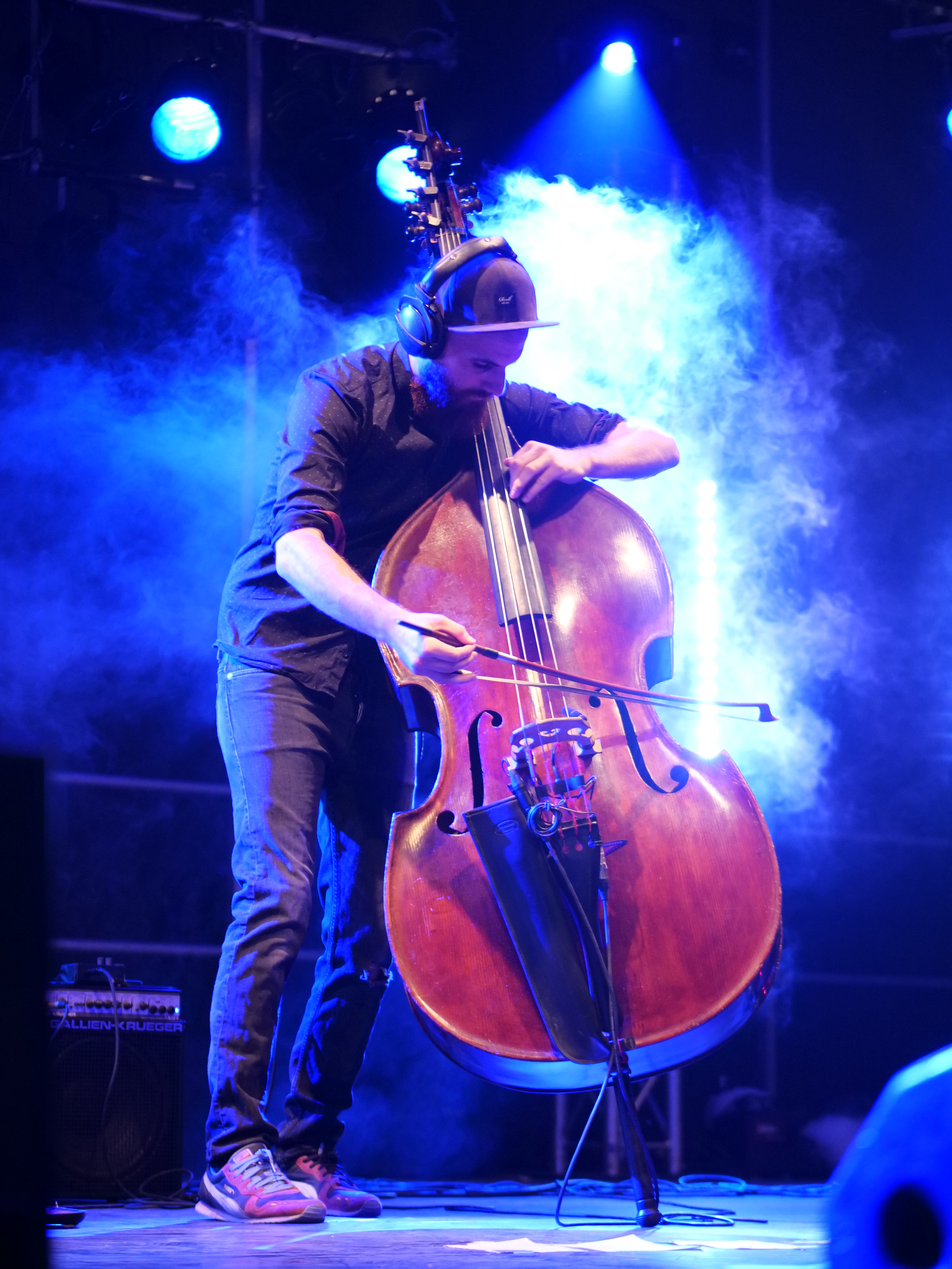 Maximilian Hirning with LBT at Sommerbühne Detmold 2018